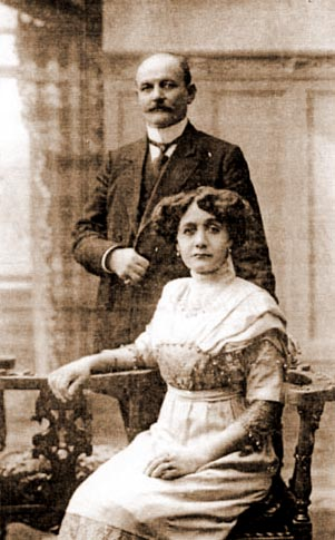 Georgi Petrov Nikolov (April 2, 1865 - June 28, 1921), macedonian revolutioner with his wife.